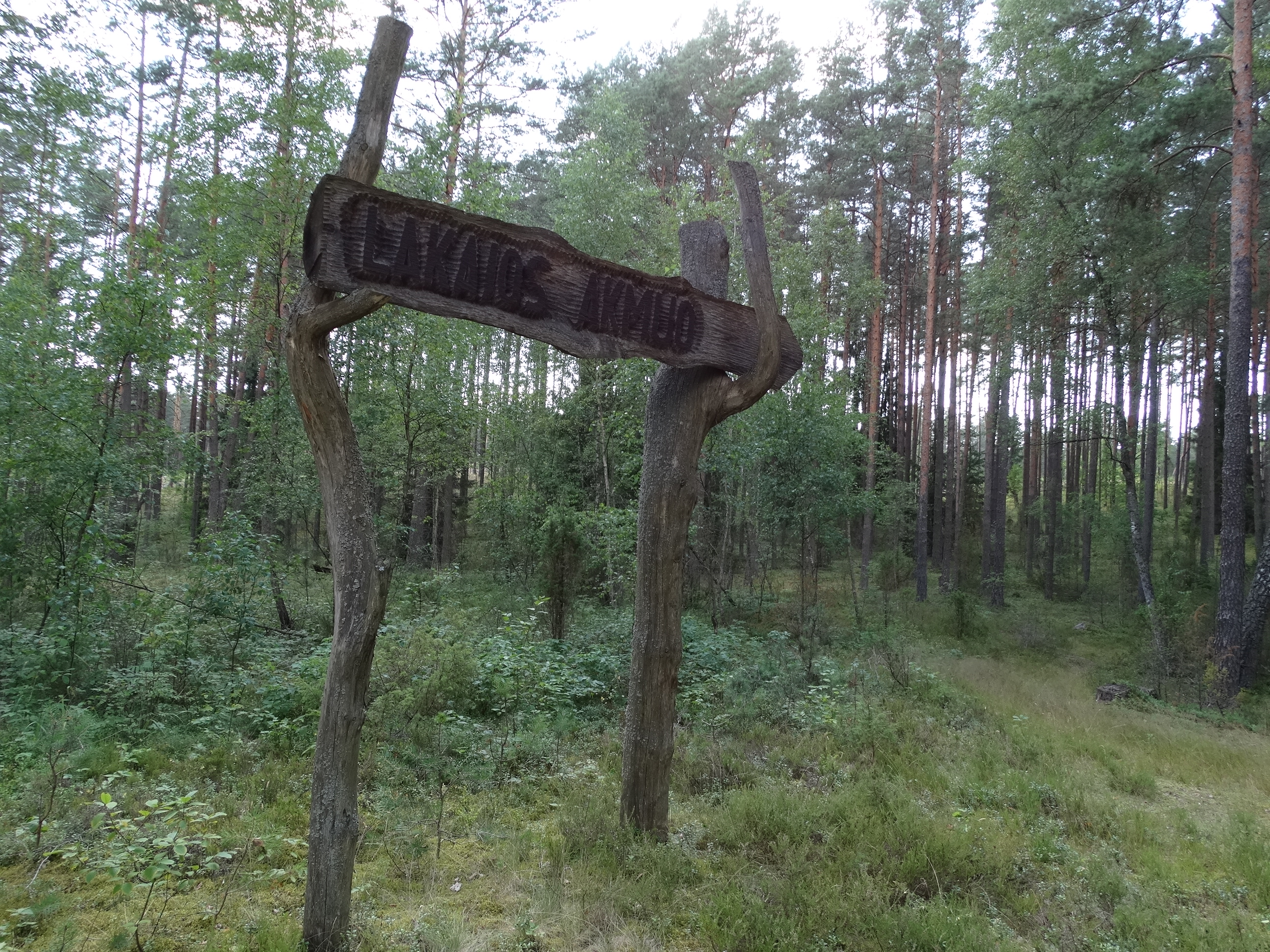 Towards Lakaja Stone, Molėtai district, Lithuania